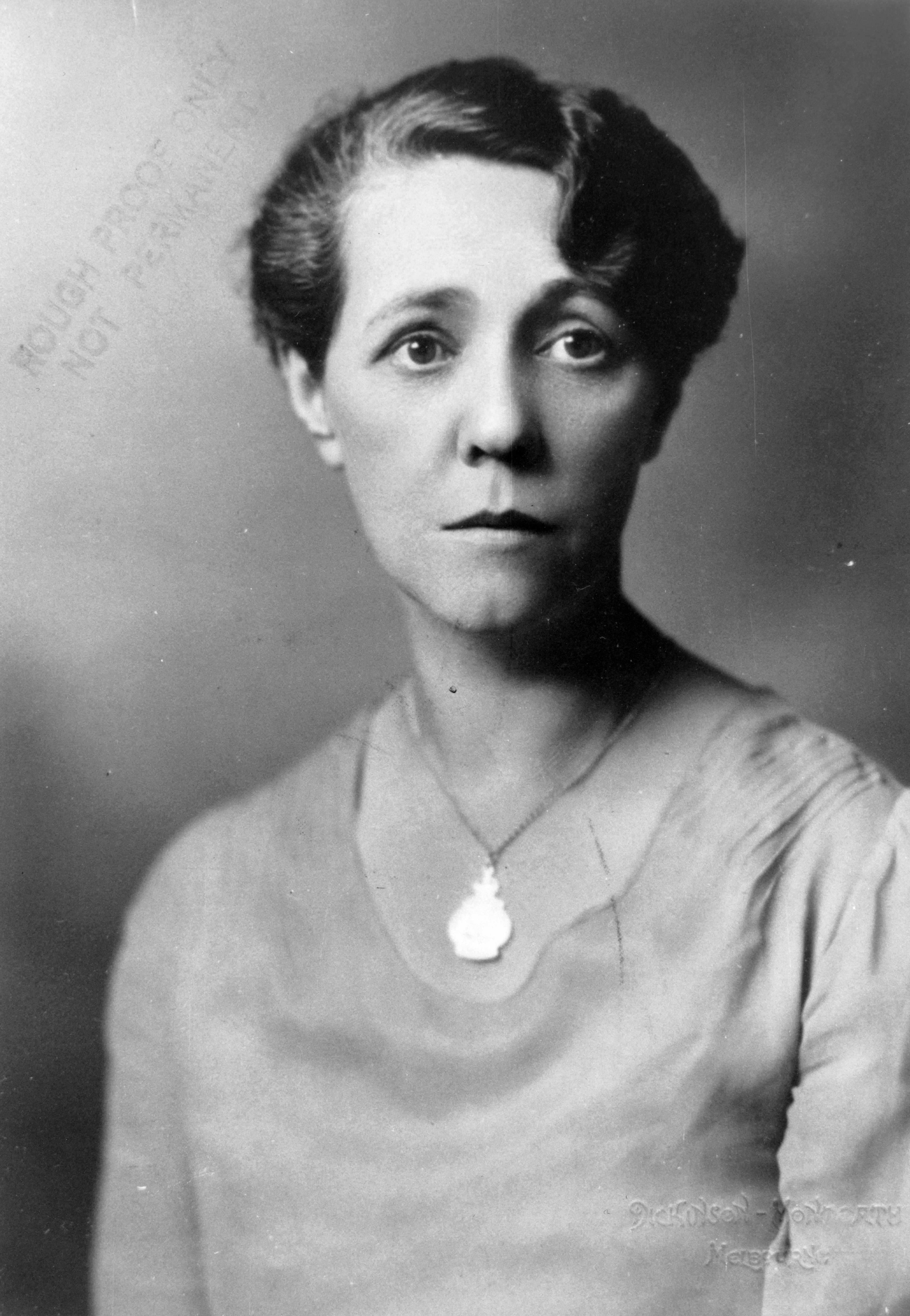 Mary Alice Holman Mary Alice 'May' Holman was born 18 July 1893 at Broken Hill, NSW. Her family moved to the Murchison goldfields in Western Australia in 1896. Educated in Dongara and Perth, she was a gifted musician and had her own band 'The Entertainers'. Her family's interest in the Labor movement greatly influenced May and she became the first Labor woman parlimentarian, elected as the representative for the Forrest riding. She saw herself primarily as the representative of families' interests in the small forest settlements of her electorate. She spoke effectively on the issues such as the lack of medical care, decent housing and schooling and dangerous work. She was, at various times, president of Perth Labour women; president then secretary of the Labor Women's Central Executive; president of the Labor Women's Interstate Executive and secretary to the Parlimentary Labor Party. In 1938, at her instigation, a royal commission was set up looking into sanitation, slum clearance and health and housing regulations in Perth. She passed away in 1939. (Description supplied with photograph).